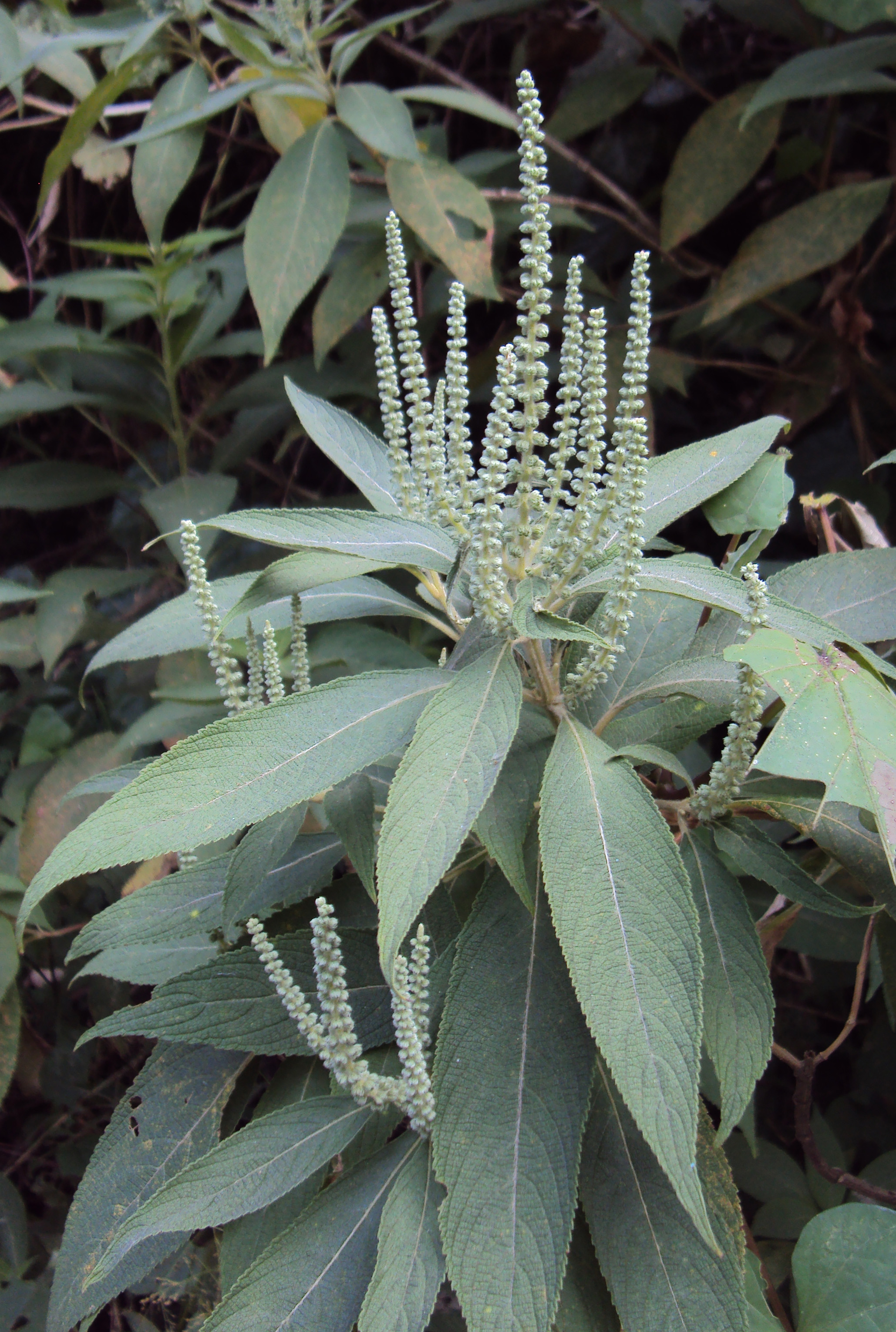 Colebrookea oppositifolia